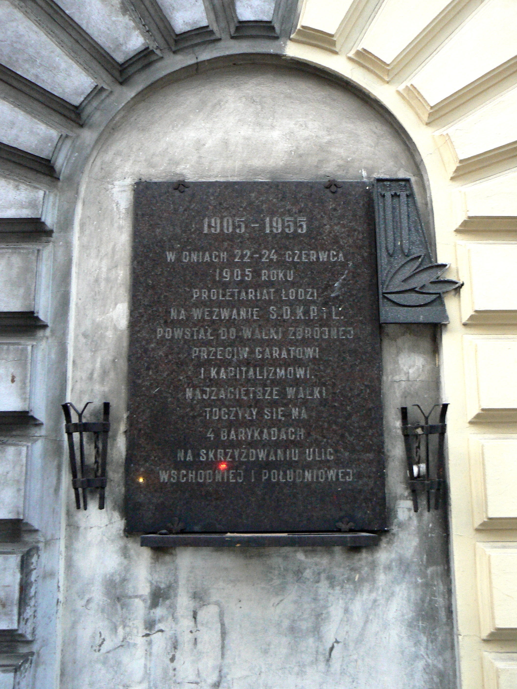 Plaque commemorating fights during the Revolution of 1905 in Łódź at the intersection of East Street and South street (since 1955 - Revolution of 1905 street).